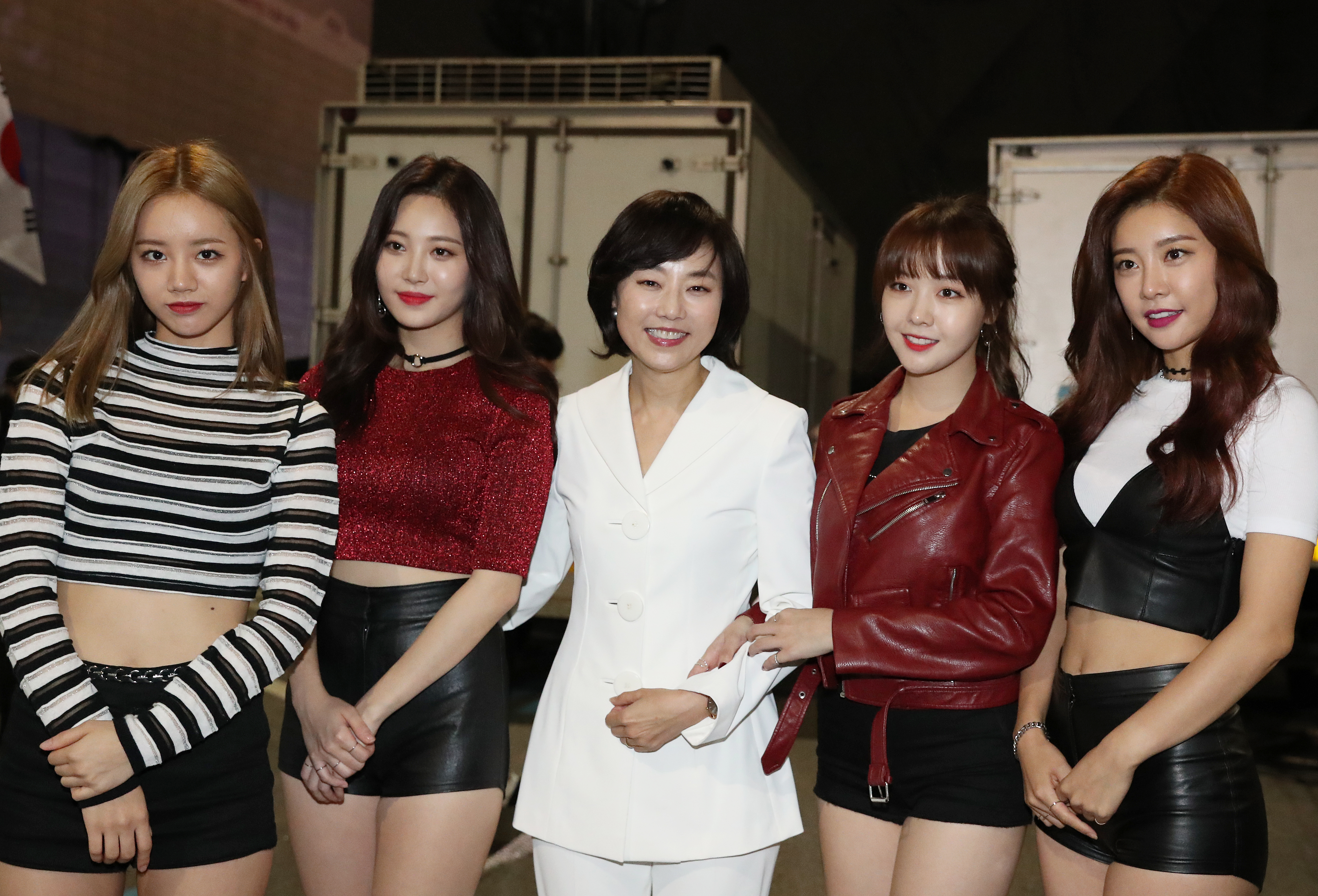 Korea Sale Festa Opening Ceremony Girl's Day September 30, 2016 Yeongdongdae-ro, Gangnam-gu, Seoul Ministry of Culture, Sports and Tourism Korean Culture and Information Service ( Official Photographer : Jeon Han